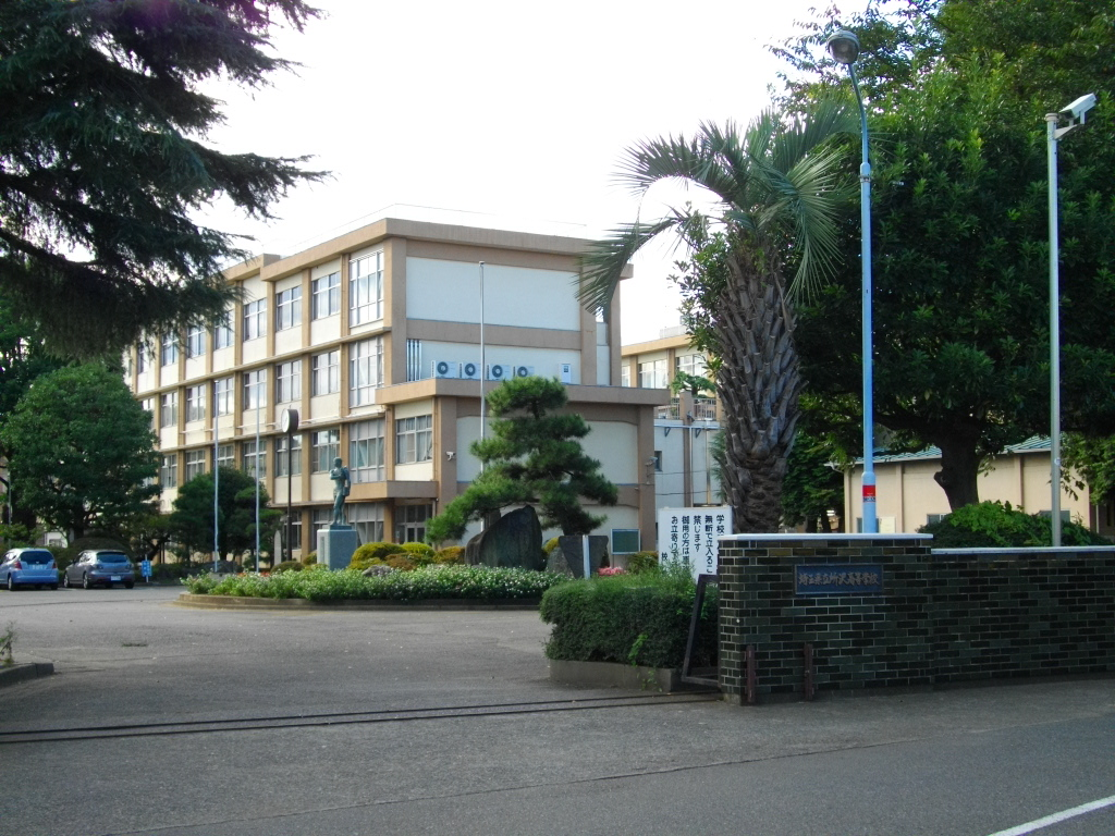 Tokorozawa High School